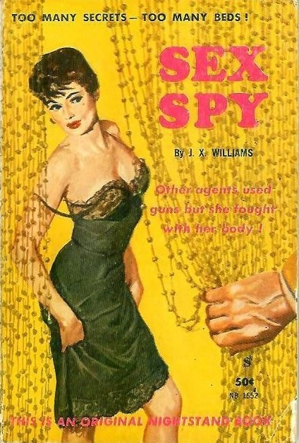 Cover of "Sex Spy" by J.X. Williams (John Jakes). Illustration by Harold W. McCauley.